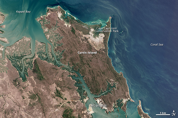 Curtis Island nasa annotations